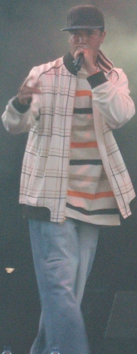 Tremendo is a spanish MC